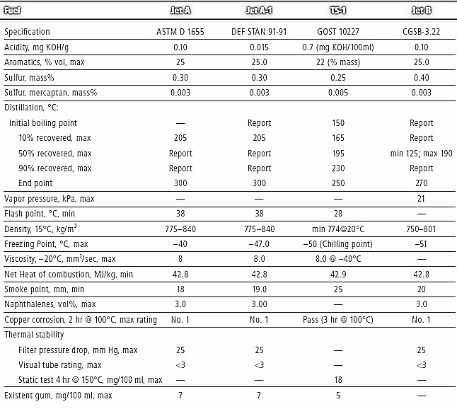 Most important specs of jet fuel